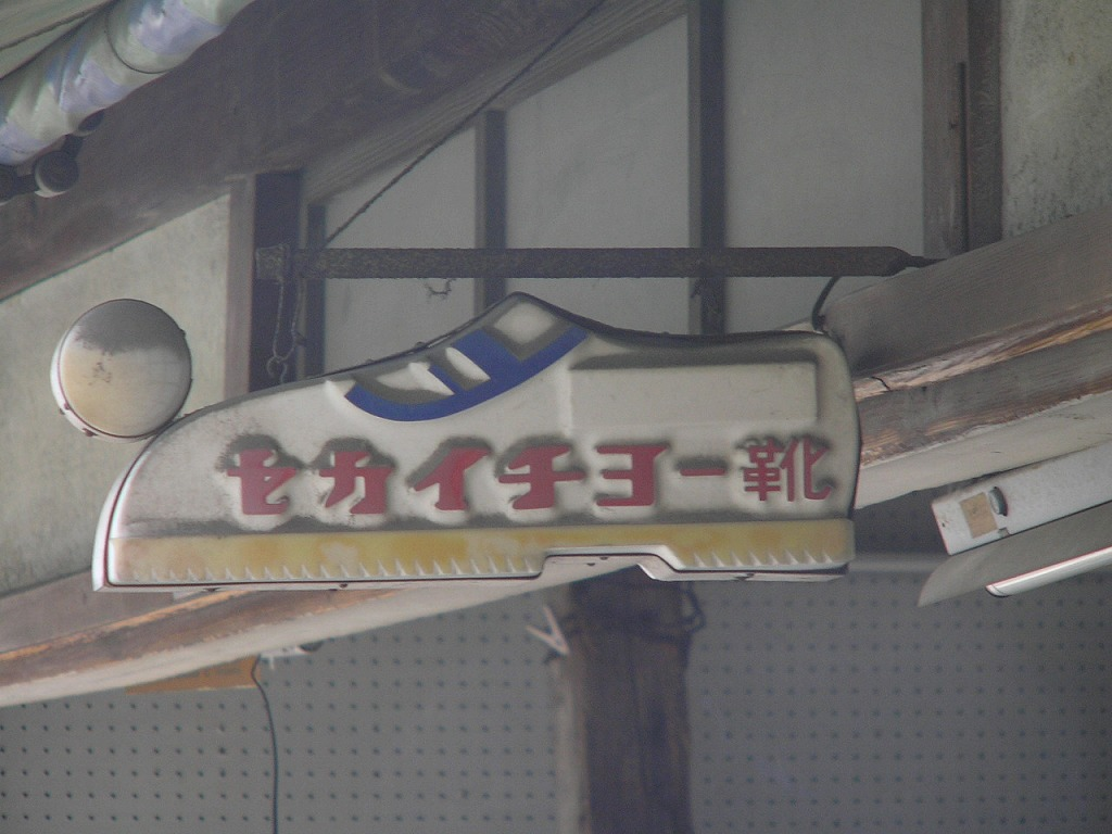 sekaityo世界長看板